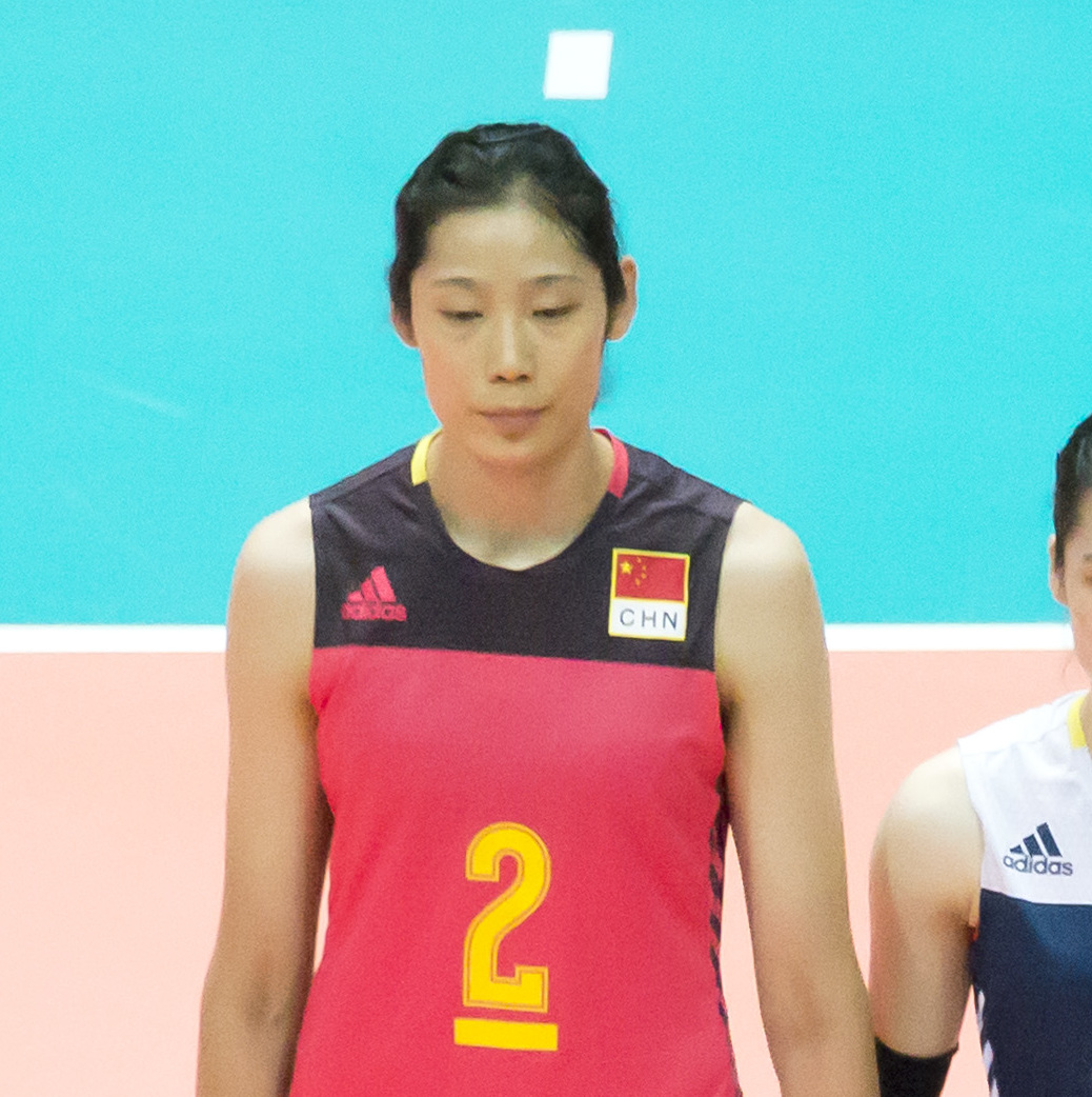 China team 1. XINYUE YUAN袁心玥 2. TING ZHU朱婷 3. JING LI 4. JINGWEN QIAN 5. YI GAO高意 6. XIANGYU GONG龚翔宇 8. DI YAO 姚廸 10. XIAOTONG LIU刘晓彤 12. YIXIN ZHENG 15. LI LIN林莉 16. XIA DING丁霞 17. YUANYUAN WANG 18. MENGJIE WANG 21. YUNLU WANG